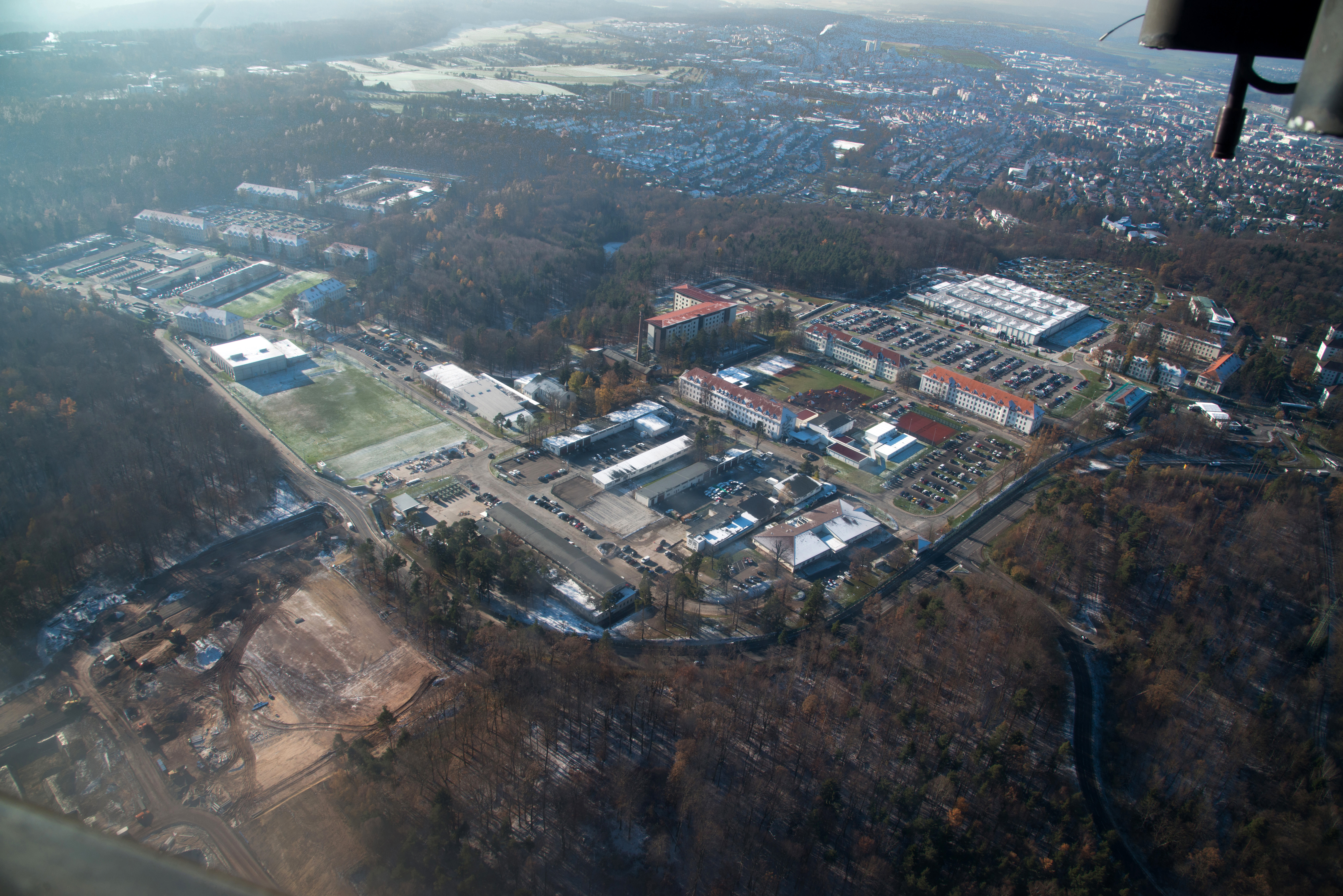 This aerial view of the Panzer Kaserne shows in the bottom left the new construction of Panzer High School. Panzer Kaserne is located near Boeblingen, Germany, and is the home of the United States Army Garrison, Stuttgart and other Army and Marine units. The new High School will become part of the Kaserne and be connected via a tunnel under Panzer Strasse, the street that wraps around the postThe city in the distance is Boeblingen, Germany